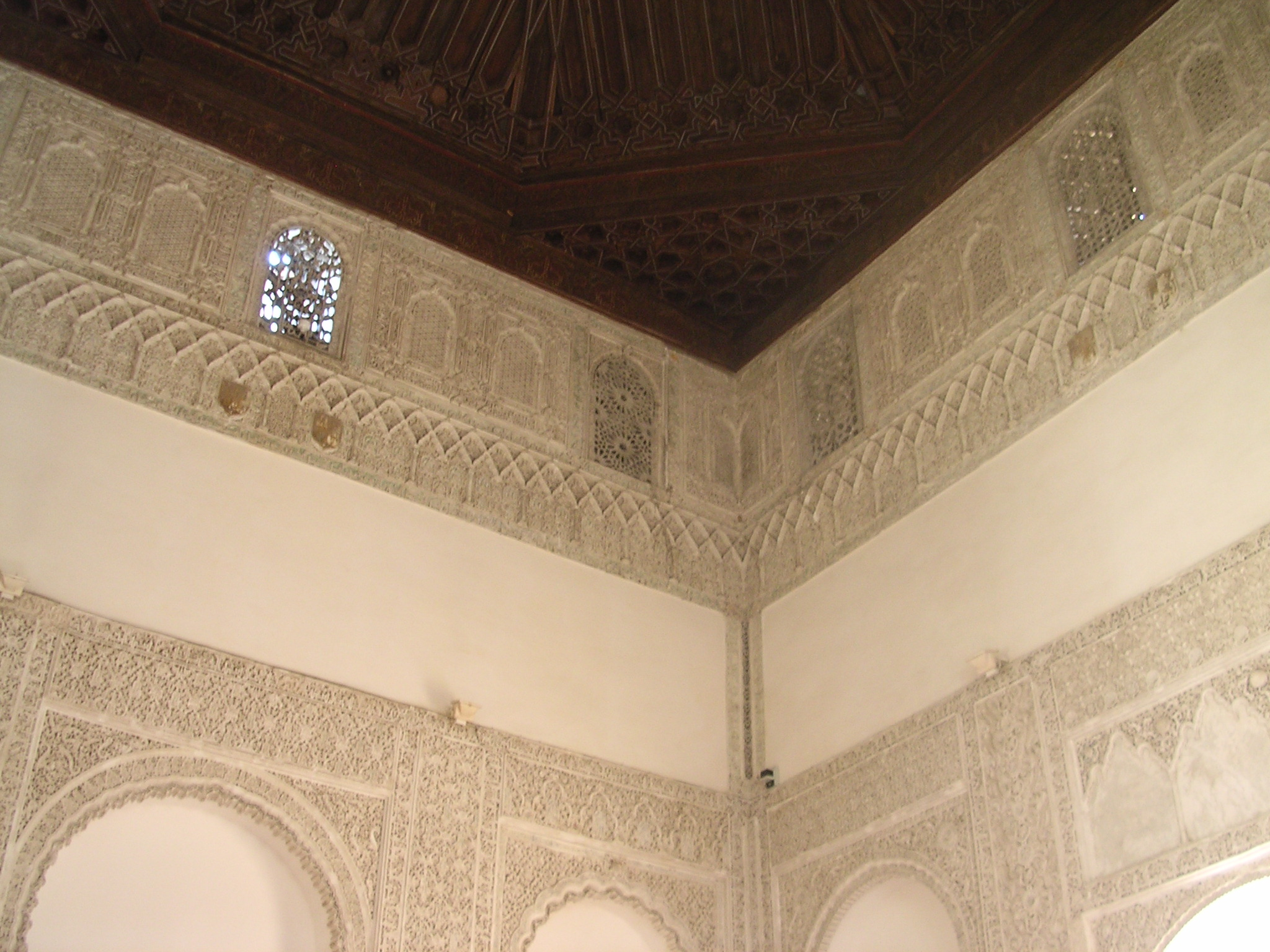 Seville, Spain